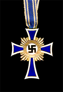 Cross of Honour of the German Mother (Mother's Cross), 1st Class Order Gold Cross, Civil State Decoration of the Deutsches Reich (German Reich), Conferred from between 1939-1945